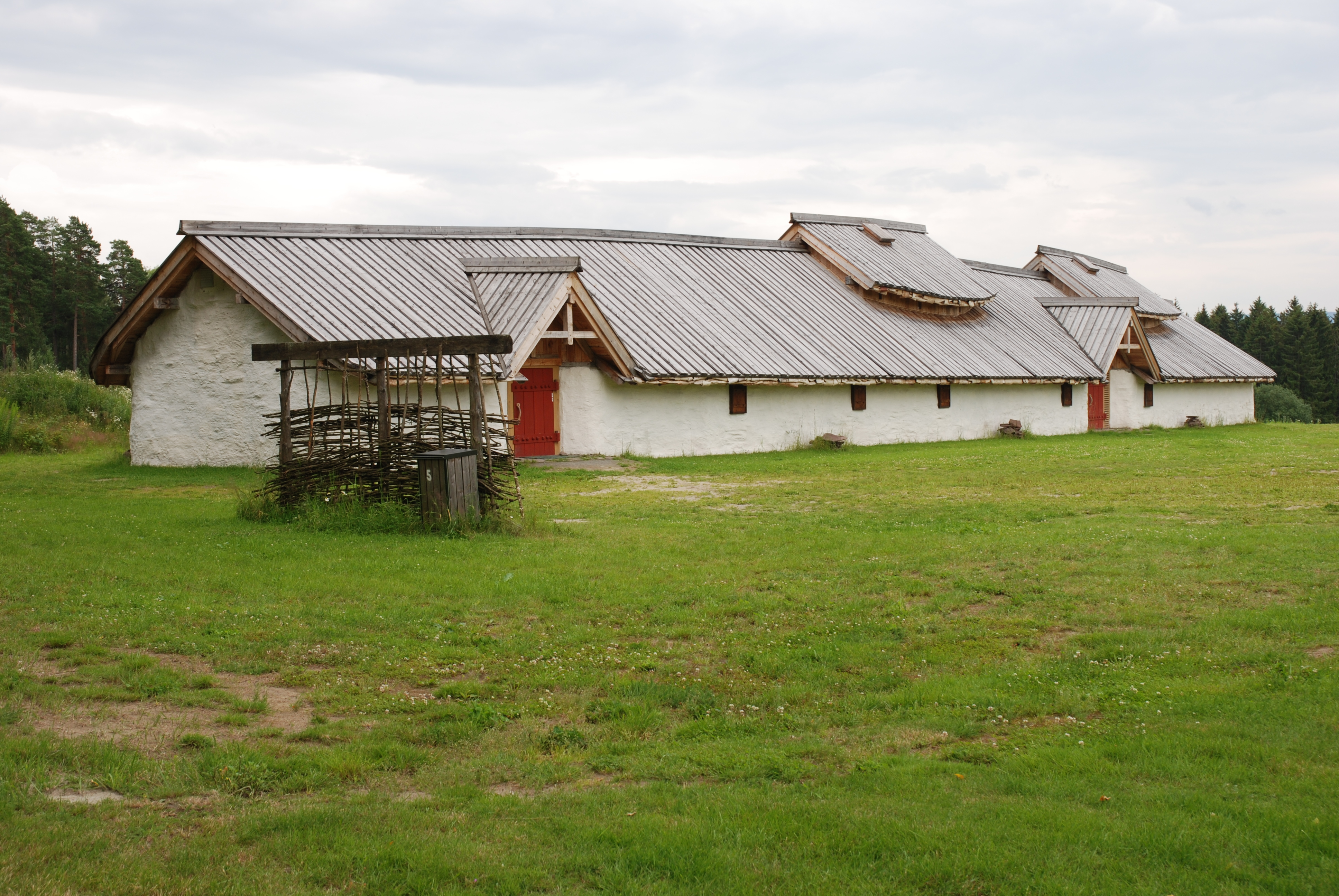 Reconstruction of a 2 000 year old viking house, on it's original location. Located in Ringerike, Buskerud, Norway.